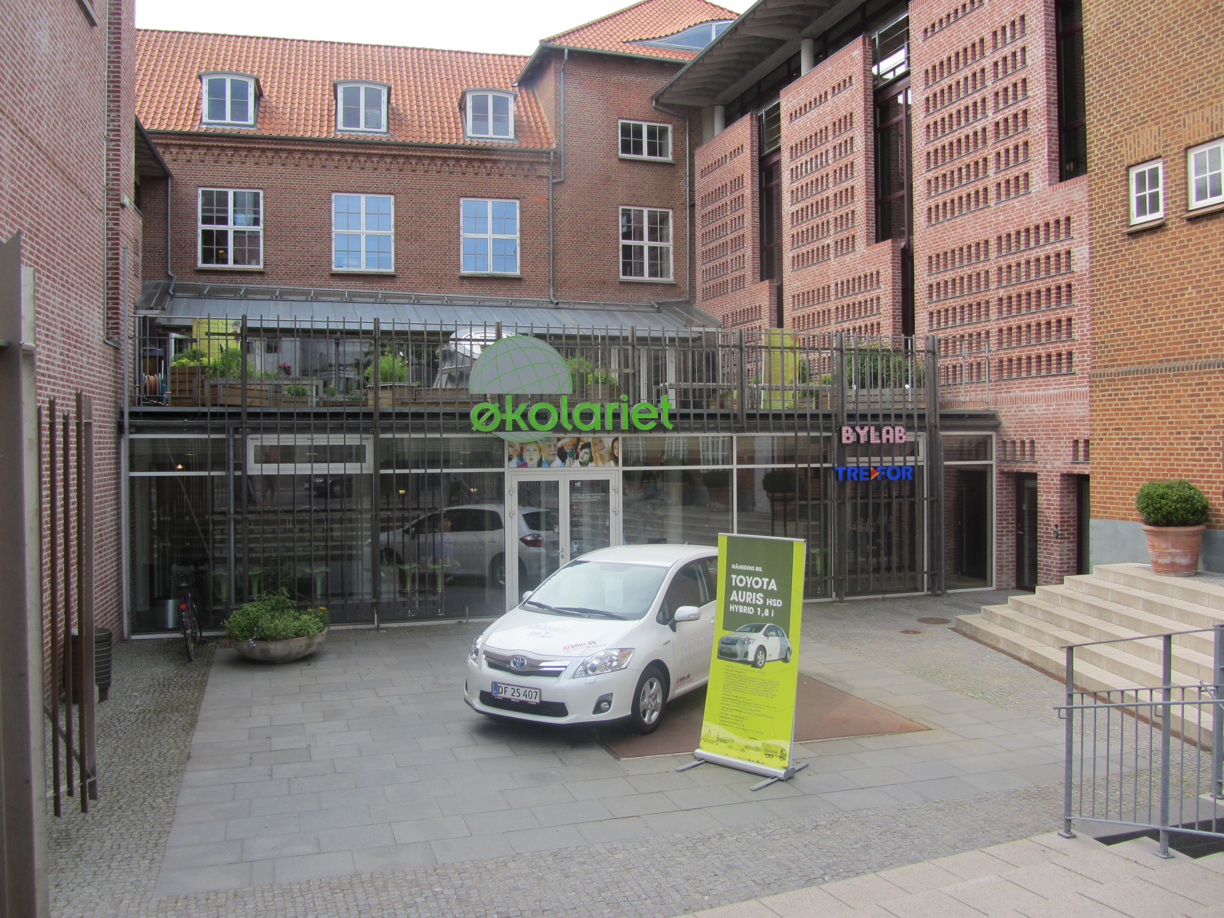 'Økolariet' in Vejle, Denmark